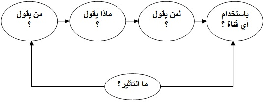 نموذج لاسويل للاتصال